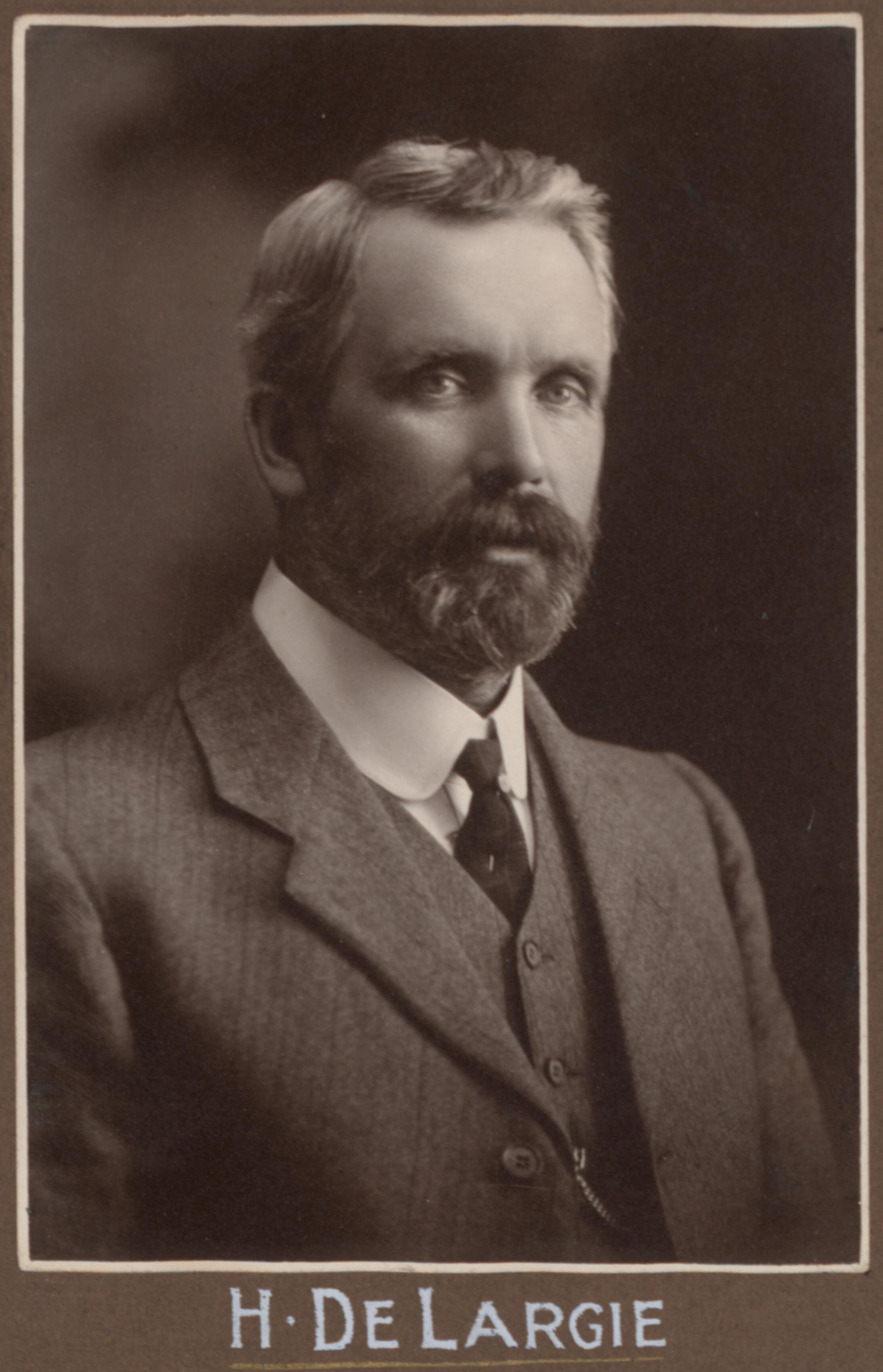 Australian politician Hugh de Largie